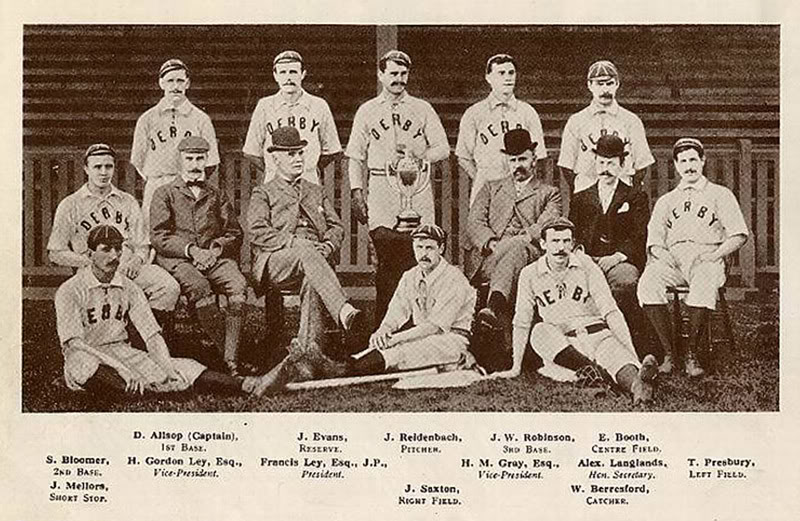 Derby County Baseball Club included in picture areFrancis Ley and Steve Bloomer